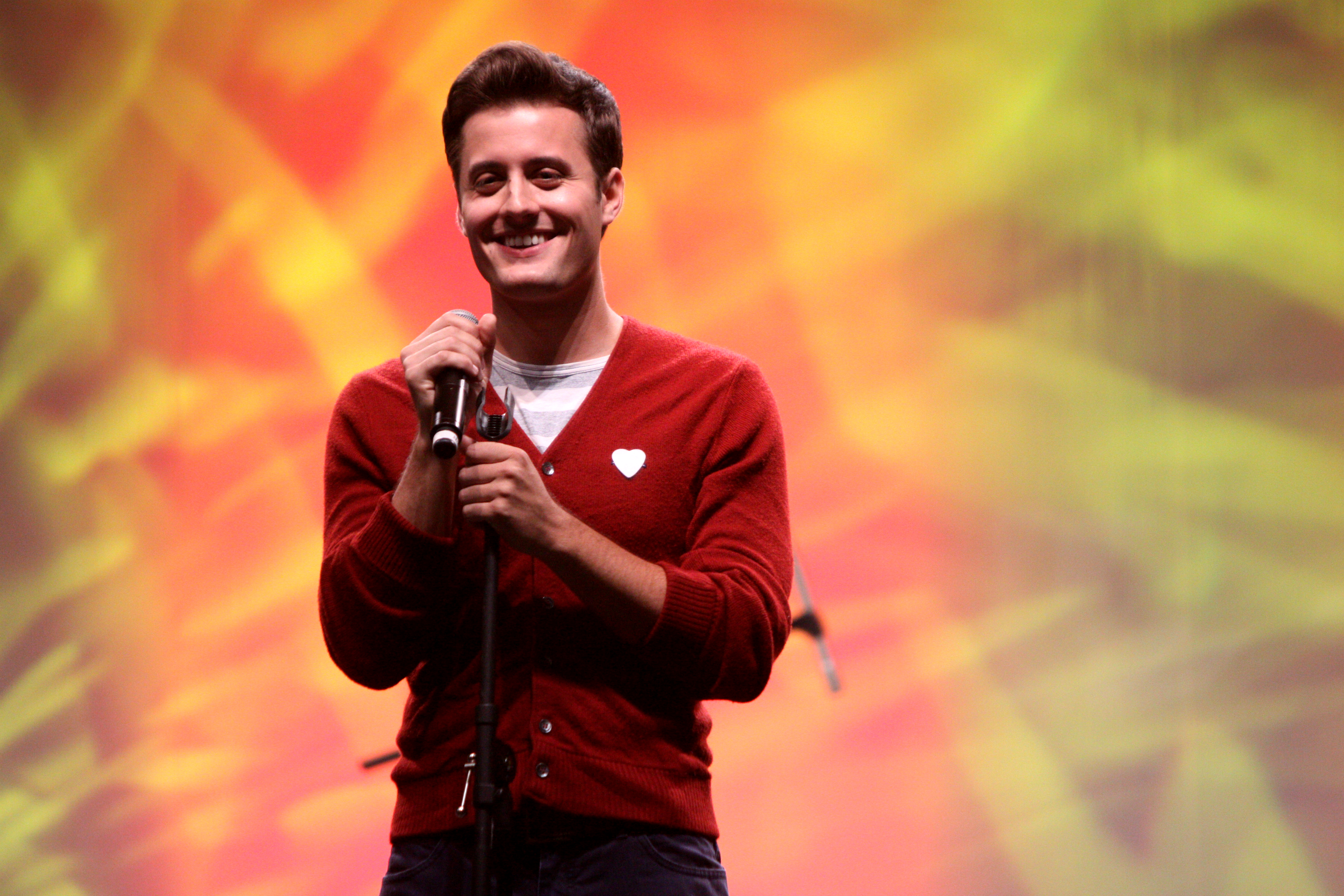 Nick Pitera performing at VidCon 2012 at the Anaheim Convention Center in Anaheim, California.